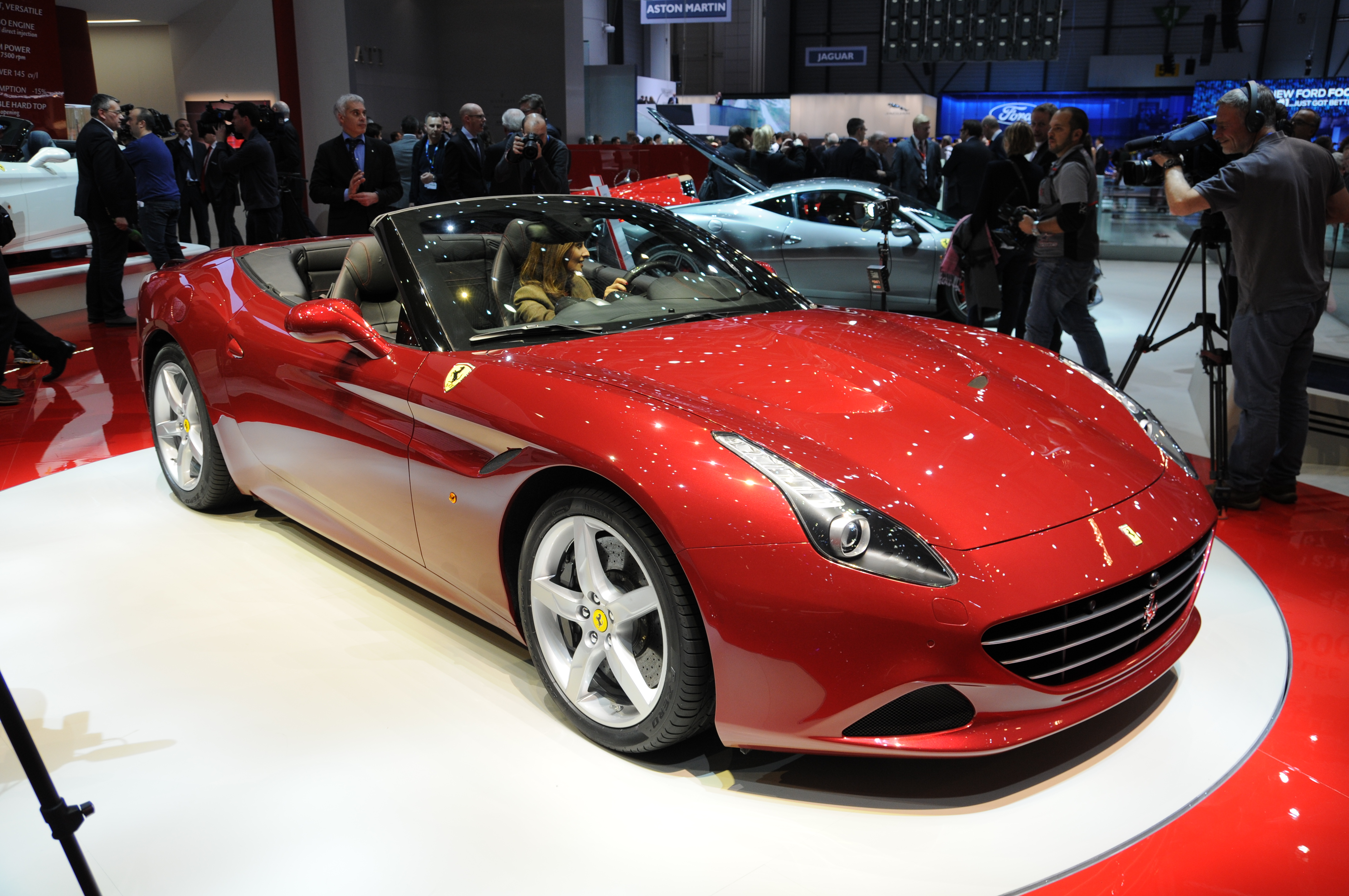 Geneva Motor Show 2014 (photo taken on the first press day)